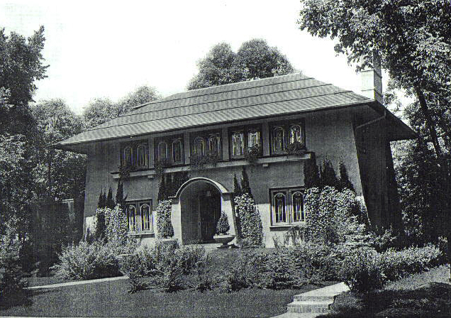 front view of the Henry W. Schultz Residence in Winnetka, Illinois designed by George Maher architect